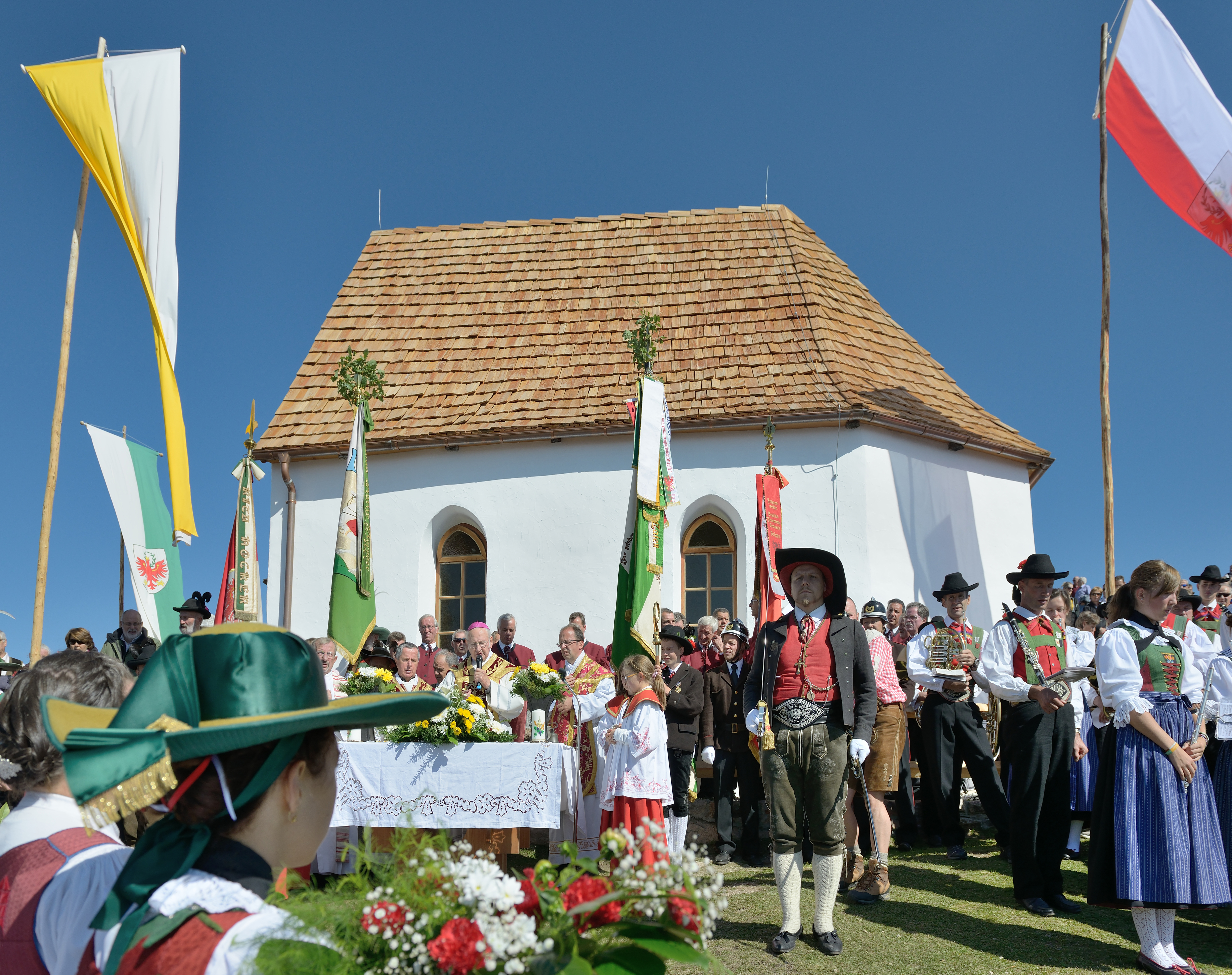 Inauguration of renewed Chapel on Resciesa in Gröden